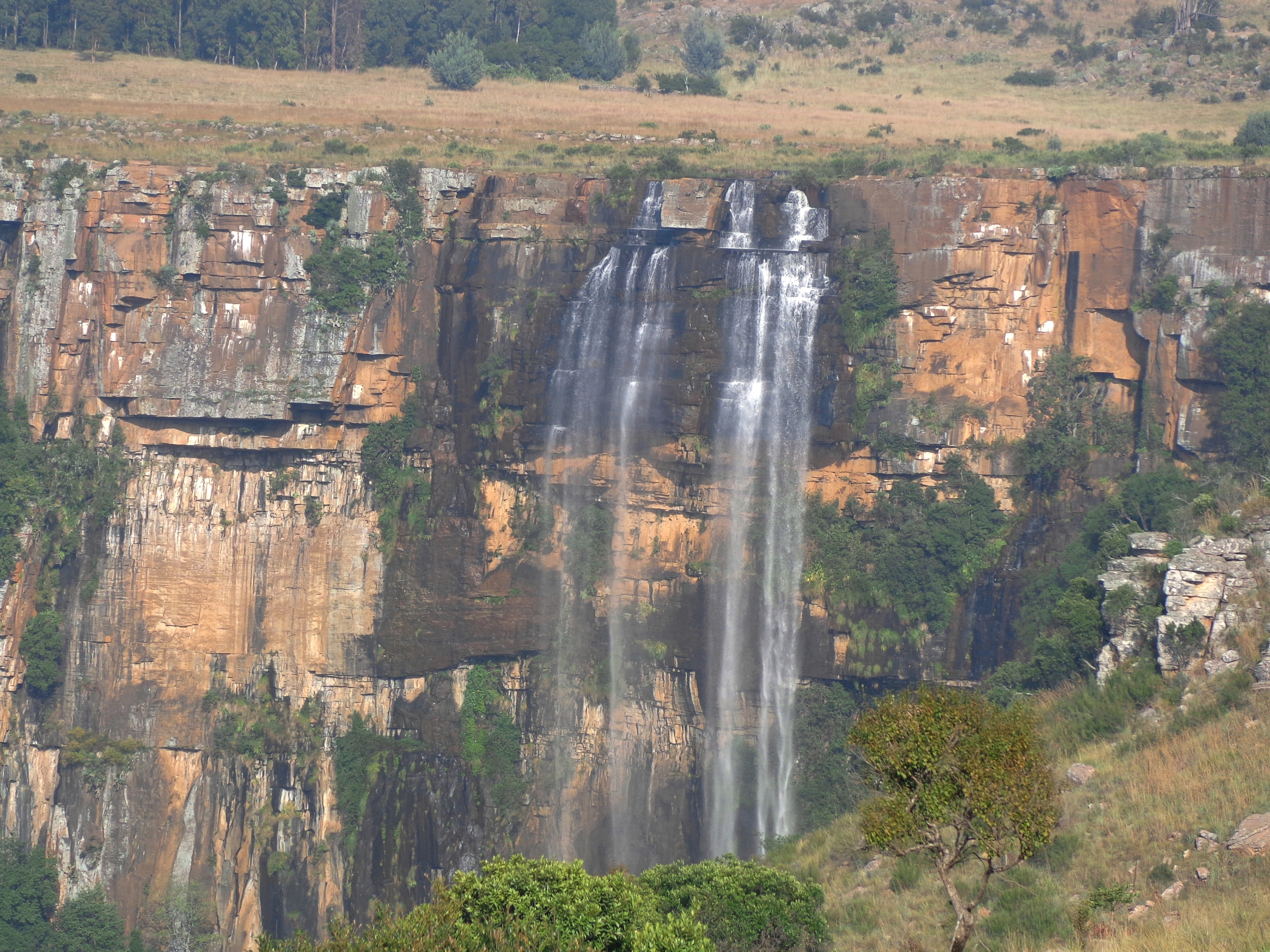 Uitkoms Waterfall in the Bank Spruit, a tributary of the Komati, near Machadodorp, Mpumalanga, South Africa